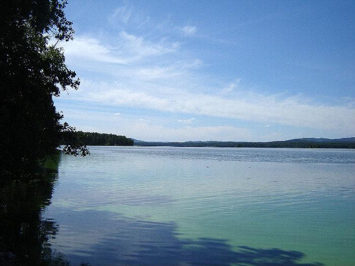 Lake Kirety in kaslinskim district of Chelyabinsk region